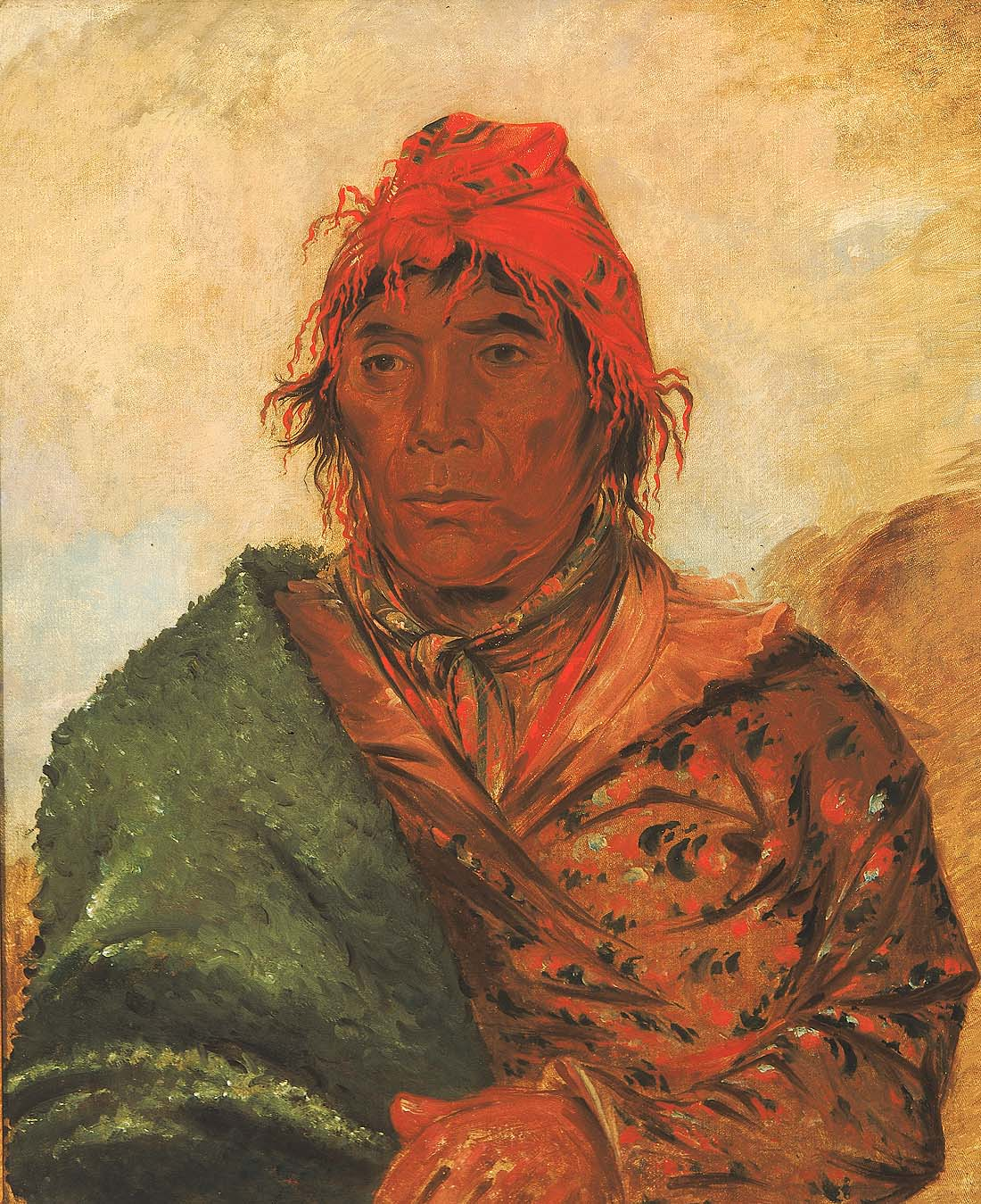 George Catlin painted Seminole chief King Phillip at Fort Moultrie, near Charleston, South Carolina, in January 1838. Catlin described him as a “very aged chief, who has been a man of great notoriety and distinction in his time.” (Catlin, Letters and Notes, vol. 2, no. 57, 1841; reprint 1973)